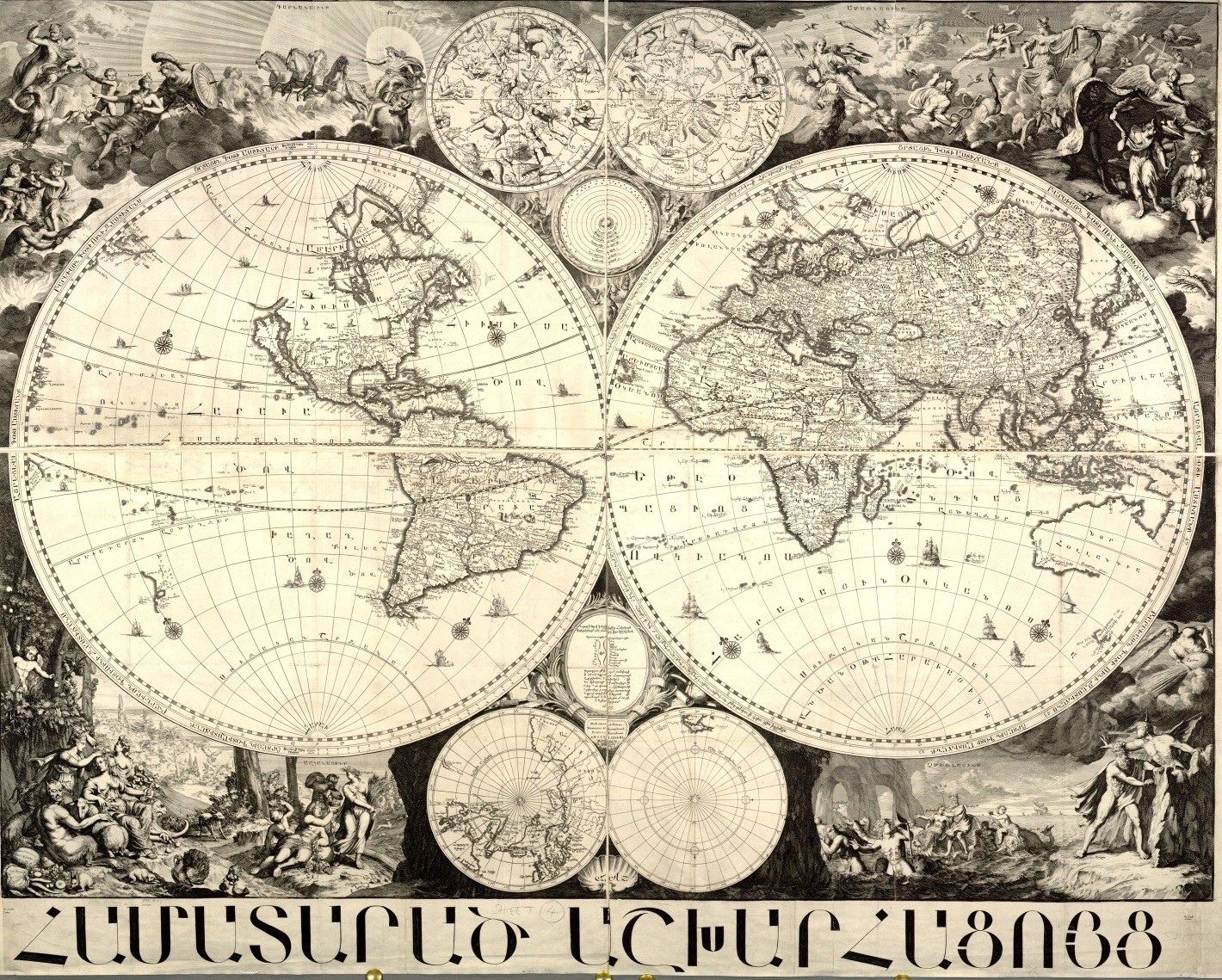 Hamataratz Ashkharhatsuyts, the first printed Armenian language map, printed in 1695, Armenian publishing house in Amsterdam